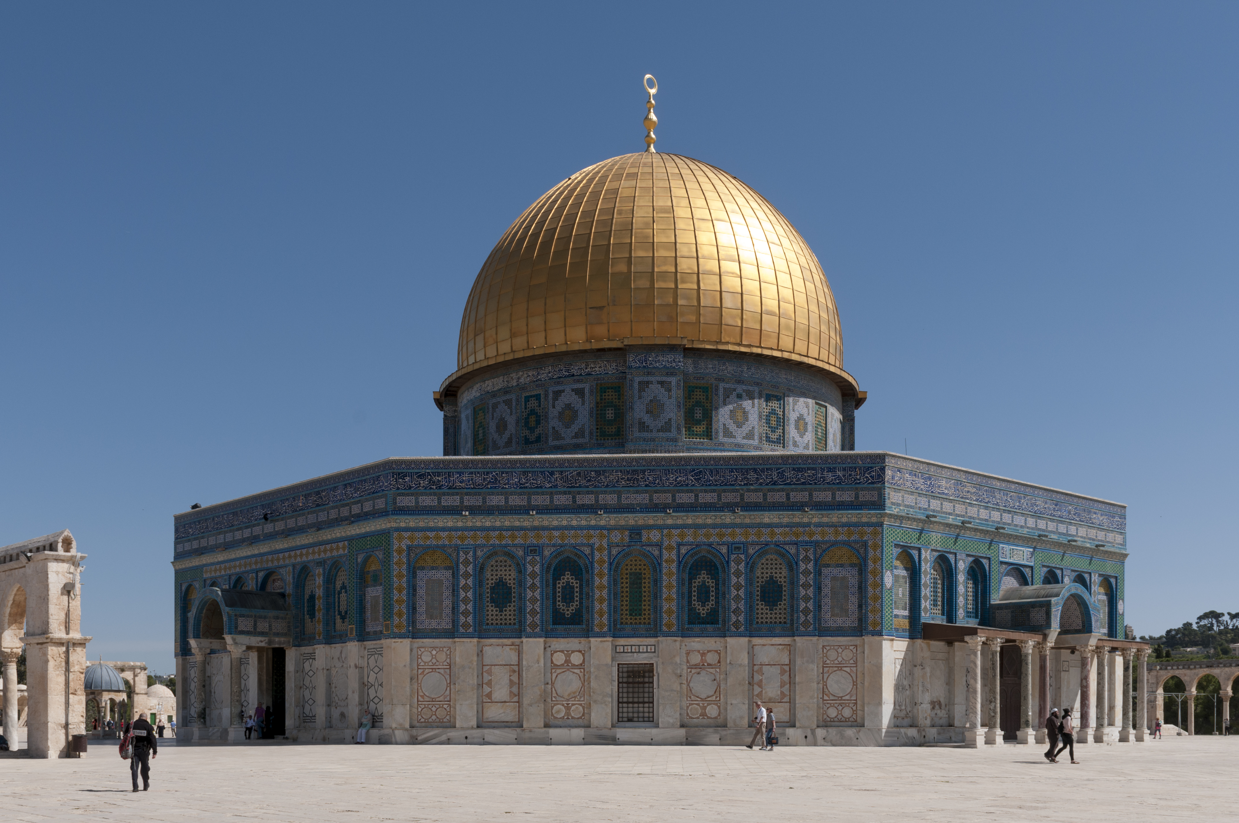 Dome of the Rock on the Temple Mount Jerusalem